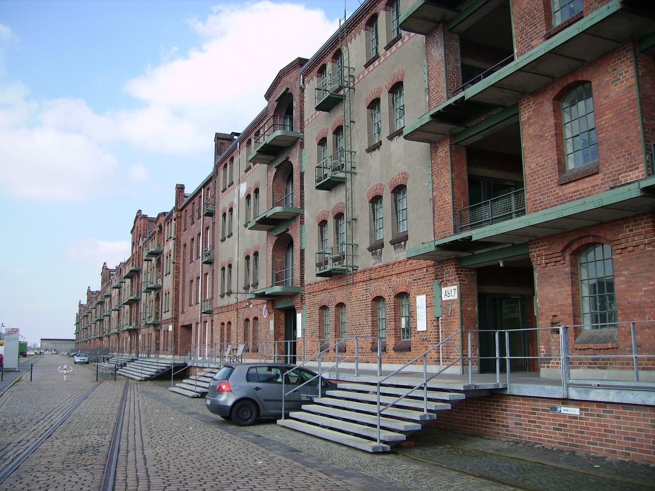 The former warehouse "Speicher XI" in the port area of Bremen, Germany. Today the harbour museum and the University of Arts are located here.